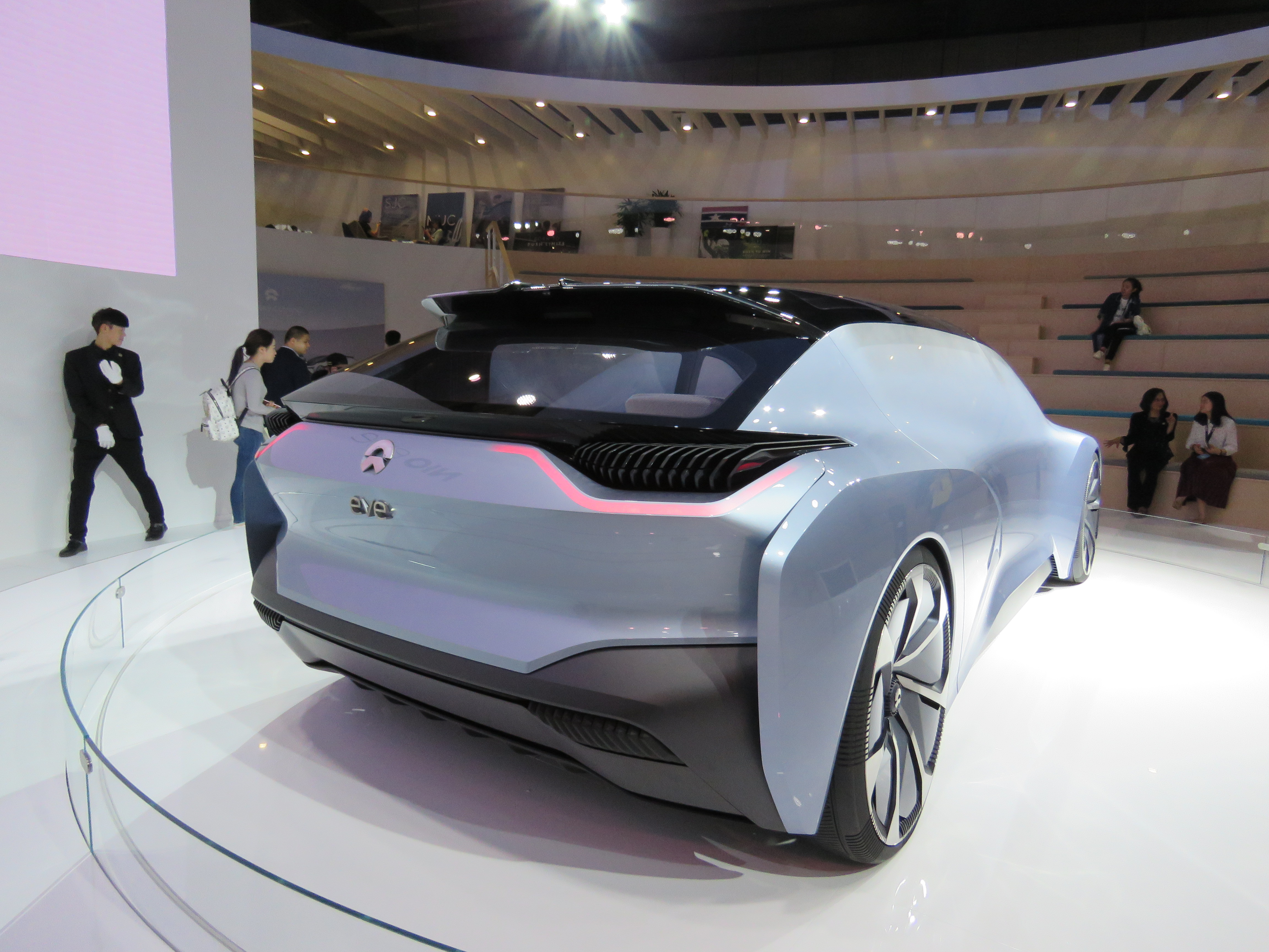 NIO Eve concept